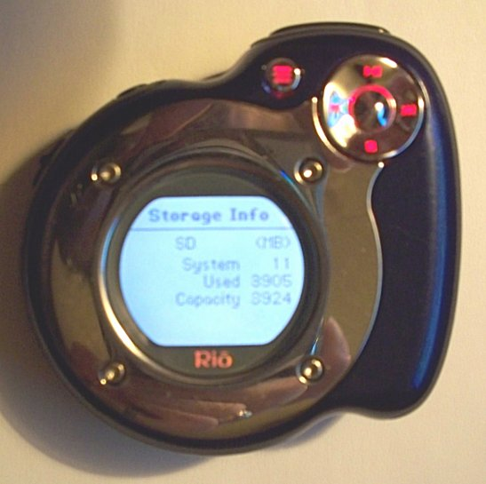 Rio Forge MP3 player showing 3924MB (4GB) of available storage on the SD card.